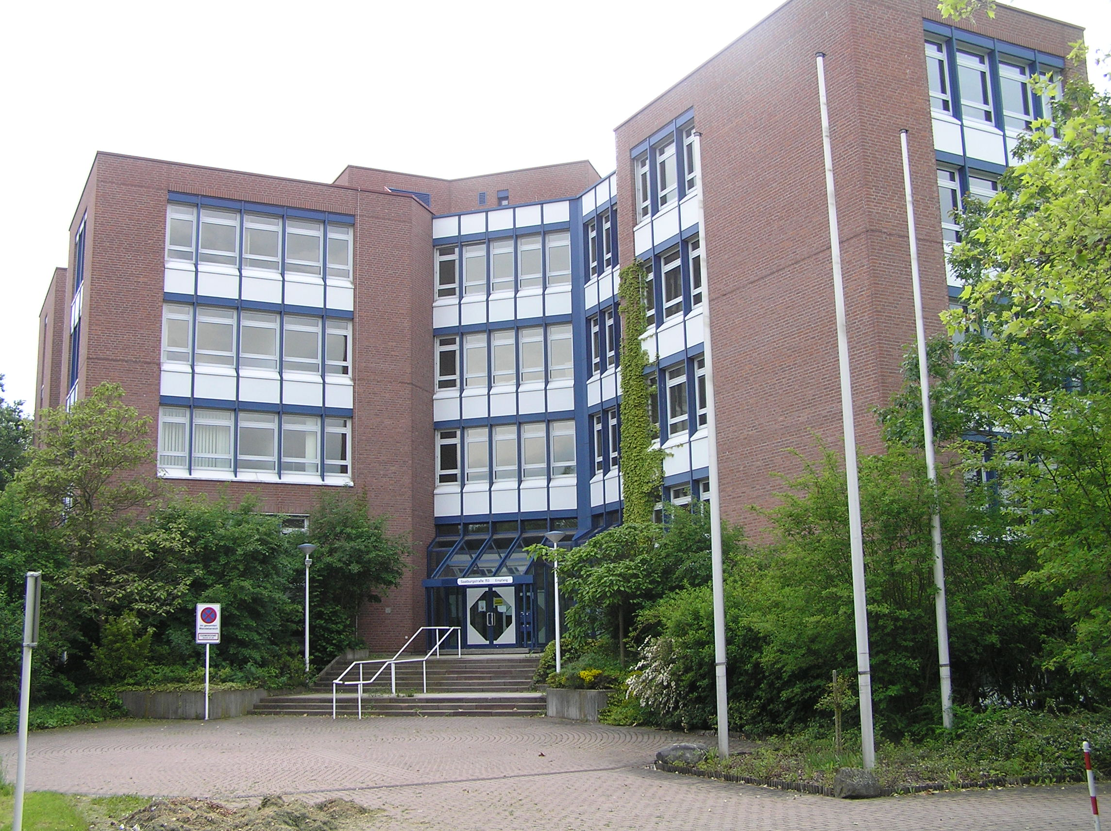 Former german headquarter of Eli Lilly & Companie in Bad Homburg vor der Höhe, Hesse, Germany